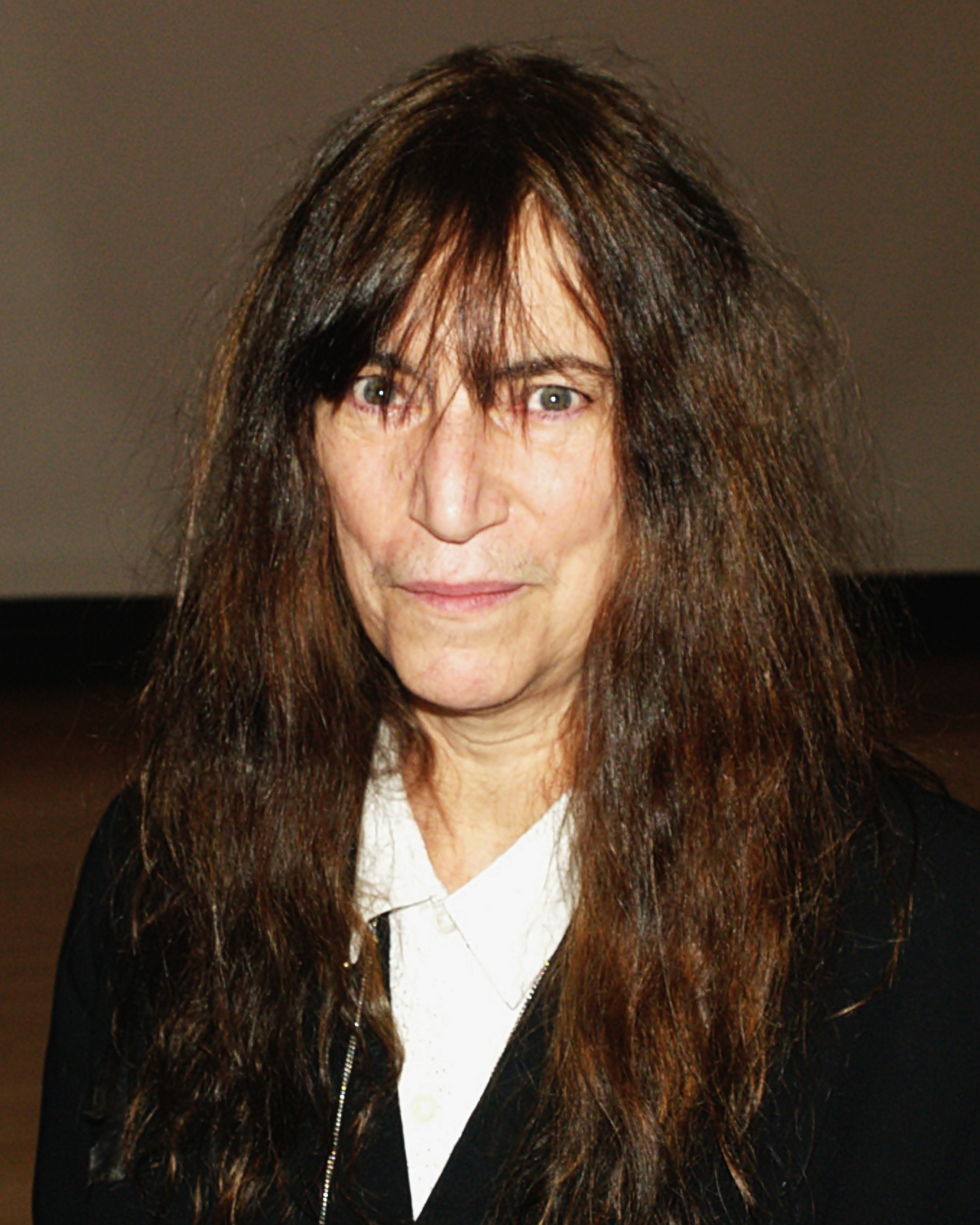 Patti Smith at the 2010 National Book Critics Circle awards. Smith was nominated for the biography award.